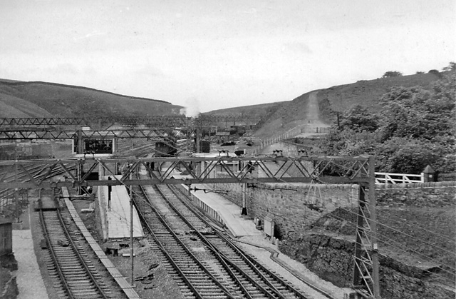 New Station at Dunford Bridge. Eastward view, shortly before formal opening of New Woodhead Tunnel. The Old lines are on the left, and some steam locomotives are still around.